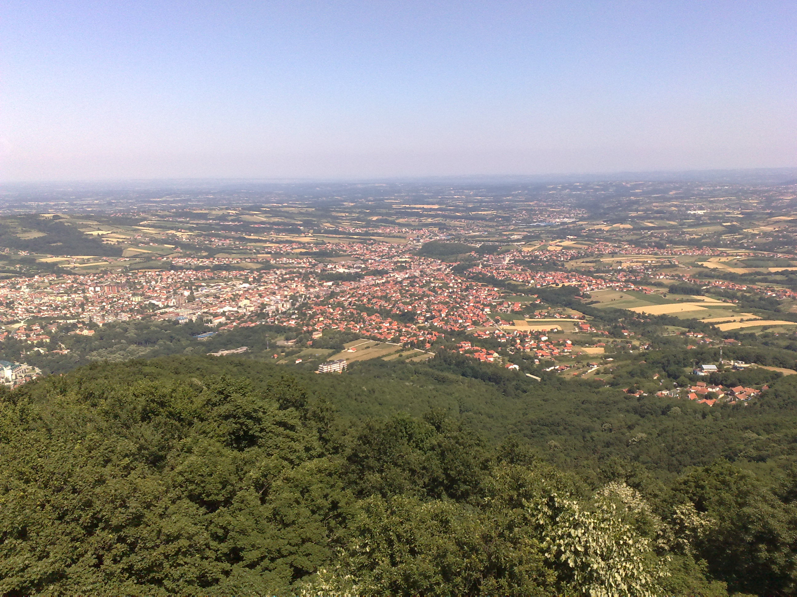 View from Bukulja